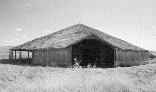 Pete French Round Barn south of Burns, Oregon.